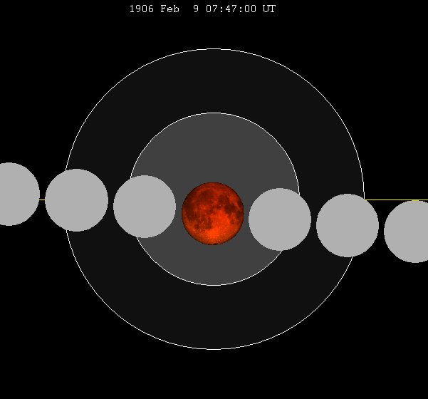 February 1906 lunar eclipse chart of moon's lunar eclipse path through the earth's shadow. thumb